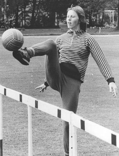 Factual corrections and alternative descriptions are encouraged separately from the original description. Additionally errors can be reported at this page to inform the Bundesarchiv. Original historic description: Rosemarie Ackermann ADN-ZB Reiche 24.8.78 Berlin: Hoch hinaus möchte Rosemarie Ackermann (DDR) bei den am 29.8. beginnenden Leichtathletik-Europameisterschaften in Prag. Daß die Cottbuserin, die am 16.8.77 als erste Frau der Welt im Hochsprung die 2-m-Grenze überquert hatte, auch das runde Leder gekonnt beherrscht, davon konnte sich unser Fotoreporter beim Abschlußtraining überzeugen.